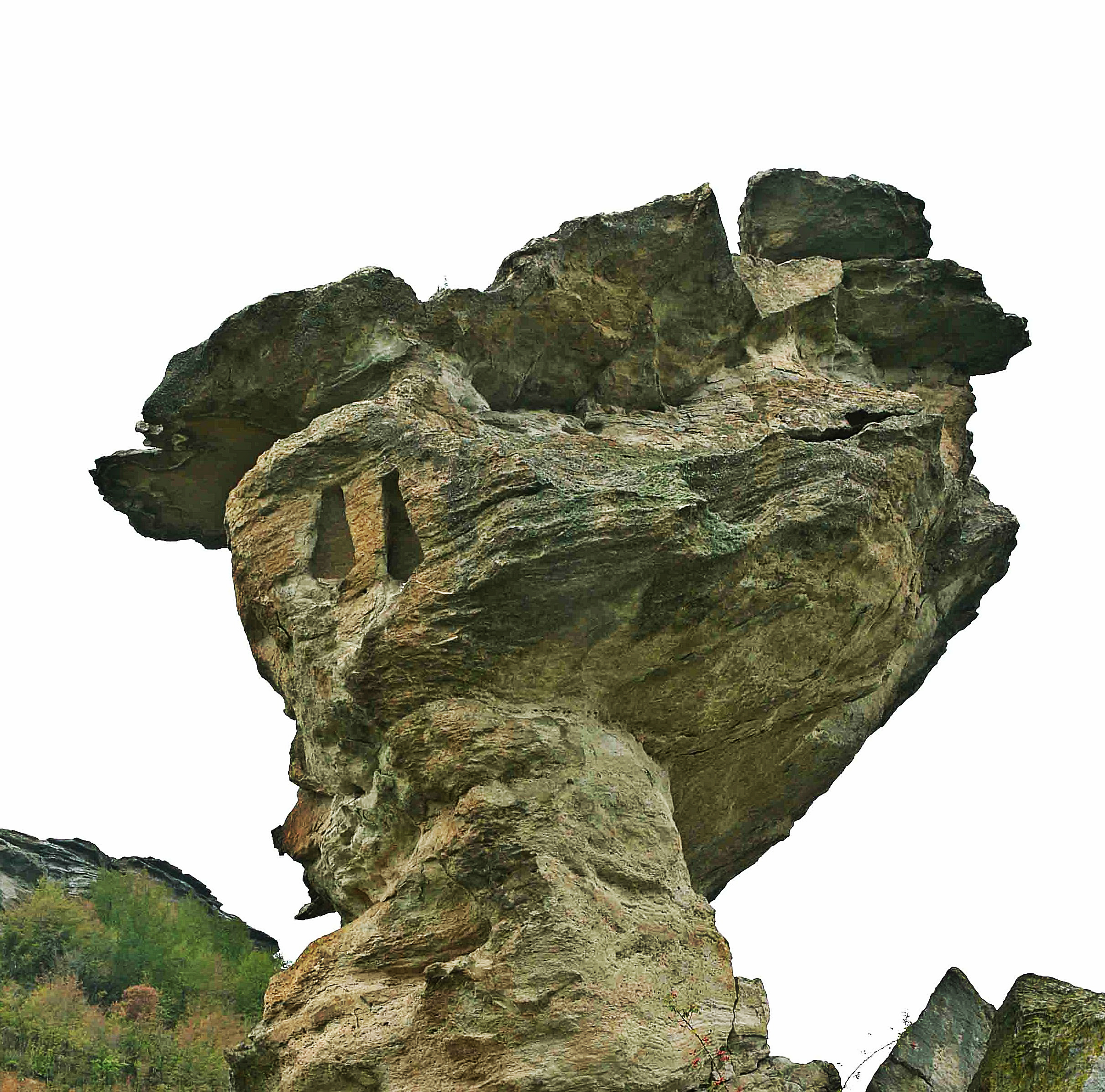 Asar kaya BG